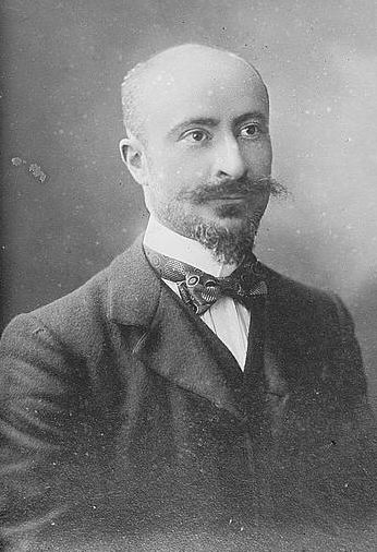 Urbain Gohier (1862-1951), French lawyer, journalist and writer